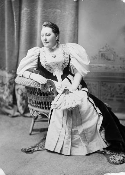 Matilda Ridout Edgar (29 September 1844 - 29 September 1910) was a Canadian-born historian and feminist. She became Lady Edgar in 1898 when her husband James David Edgar,, speaker of the Canadian House of Commons, was knighted.